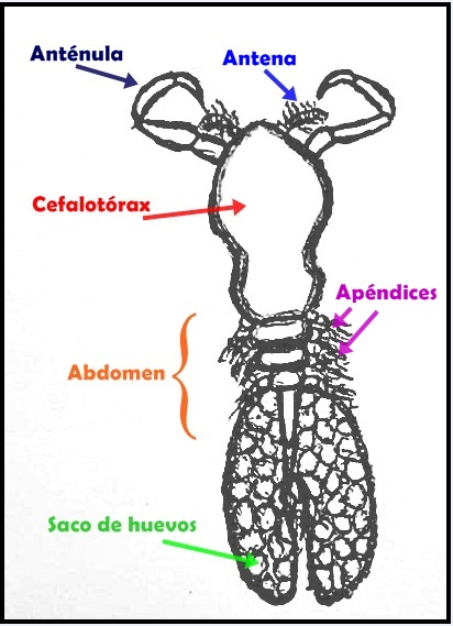 dibu ji jo ki